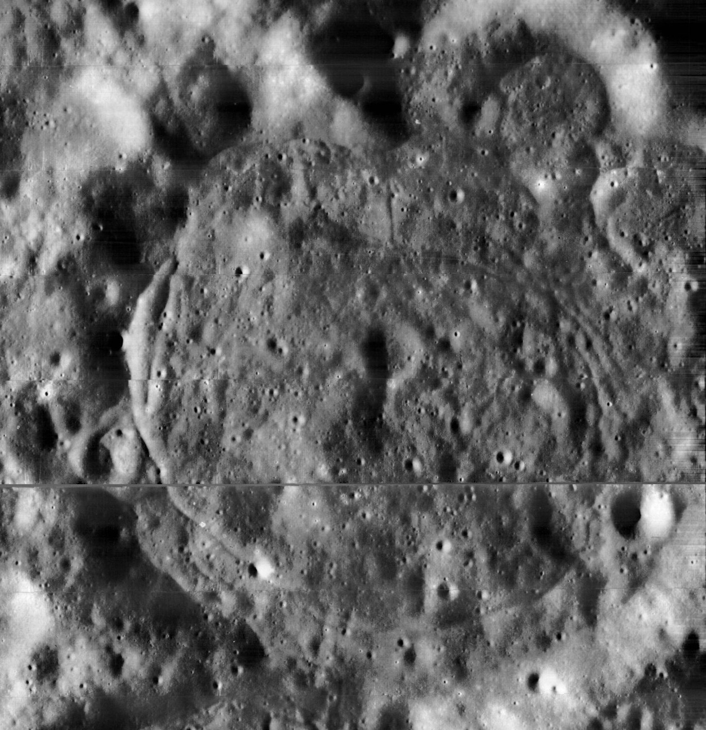 Tamm, on the far side of the moon.